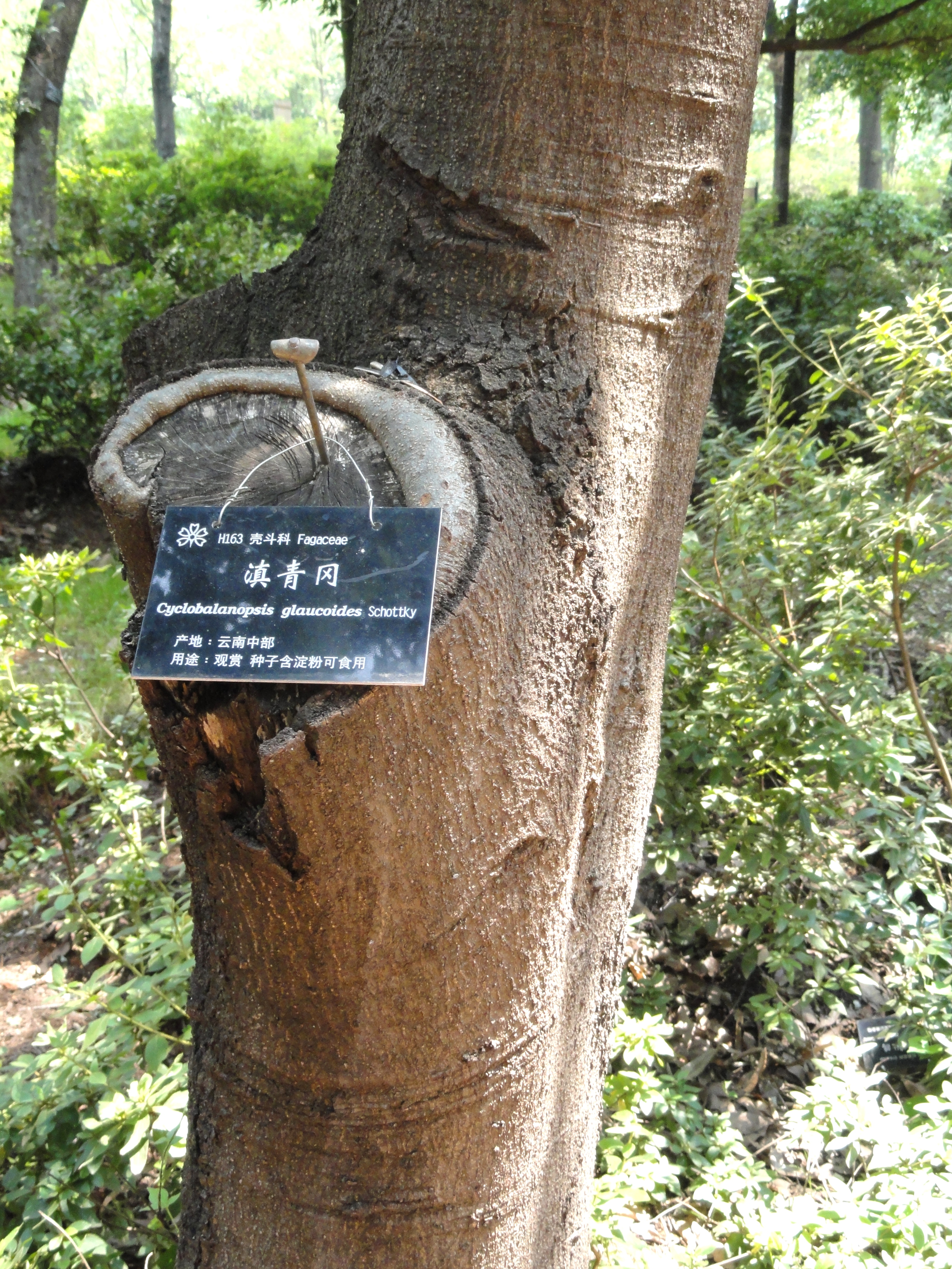 Plant specimen in the Kunming Botanical Garden, Kunming, Yunnan, China.